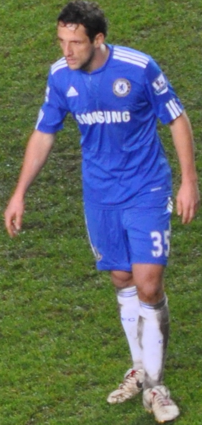 sea goal